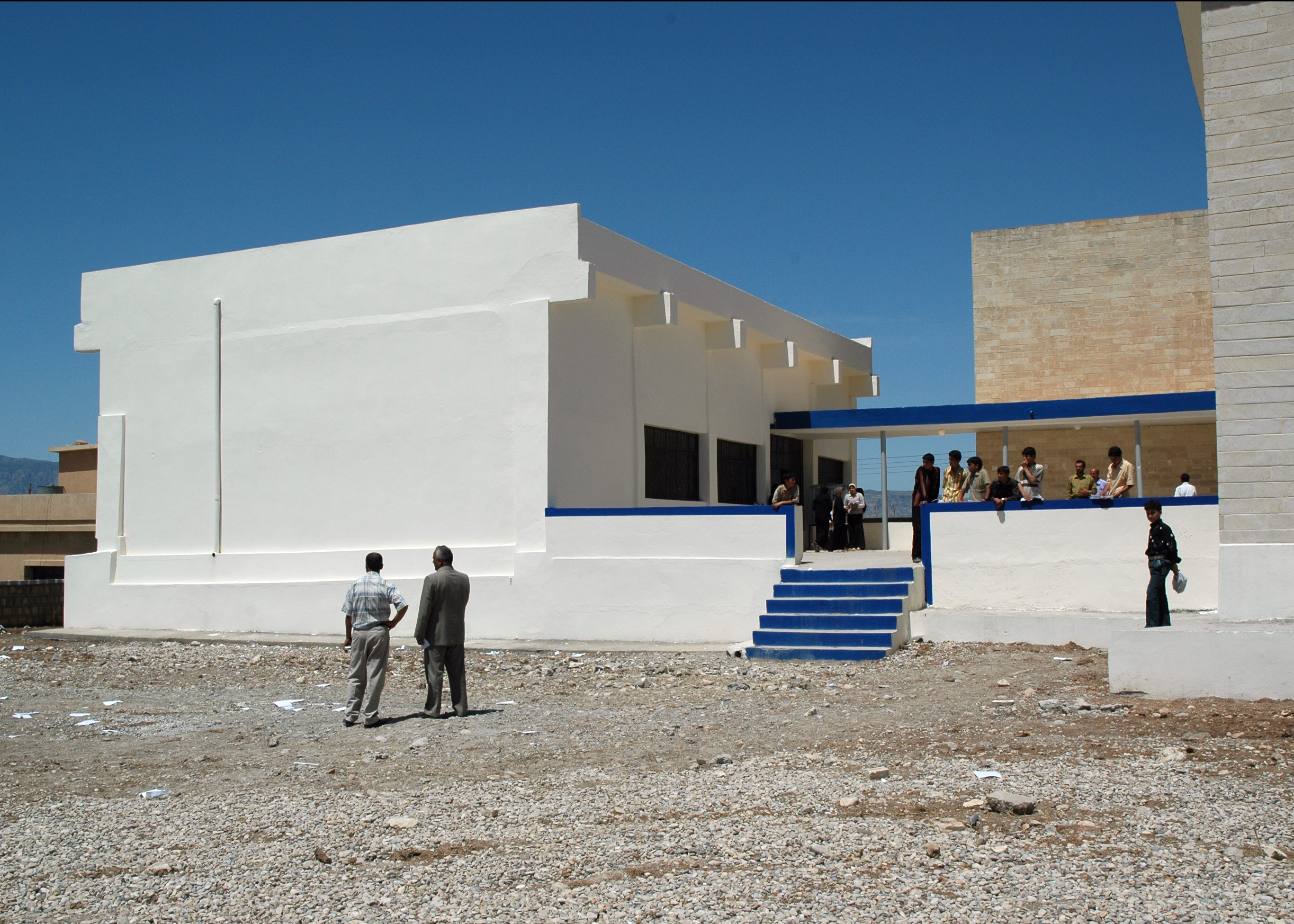 (Realeased to Public) U.S. Army Corps of Engineers (USACE) photograph by USACE photographer Jim Gordon of the construction of the Qasrook Secondary School, outside of Dohok, Kurdistan. This project required extensve structural rework on the rear elevation and in the interior spaces. Seen here are USACE site inspector John Binford and an Iraqi USACE engineer discussing this finished USACE-managed project.